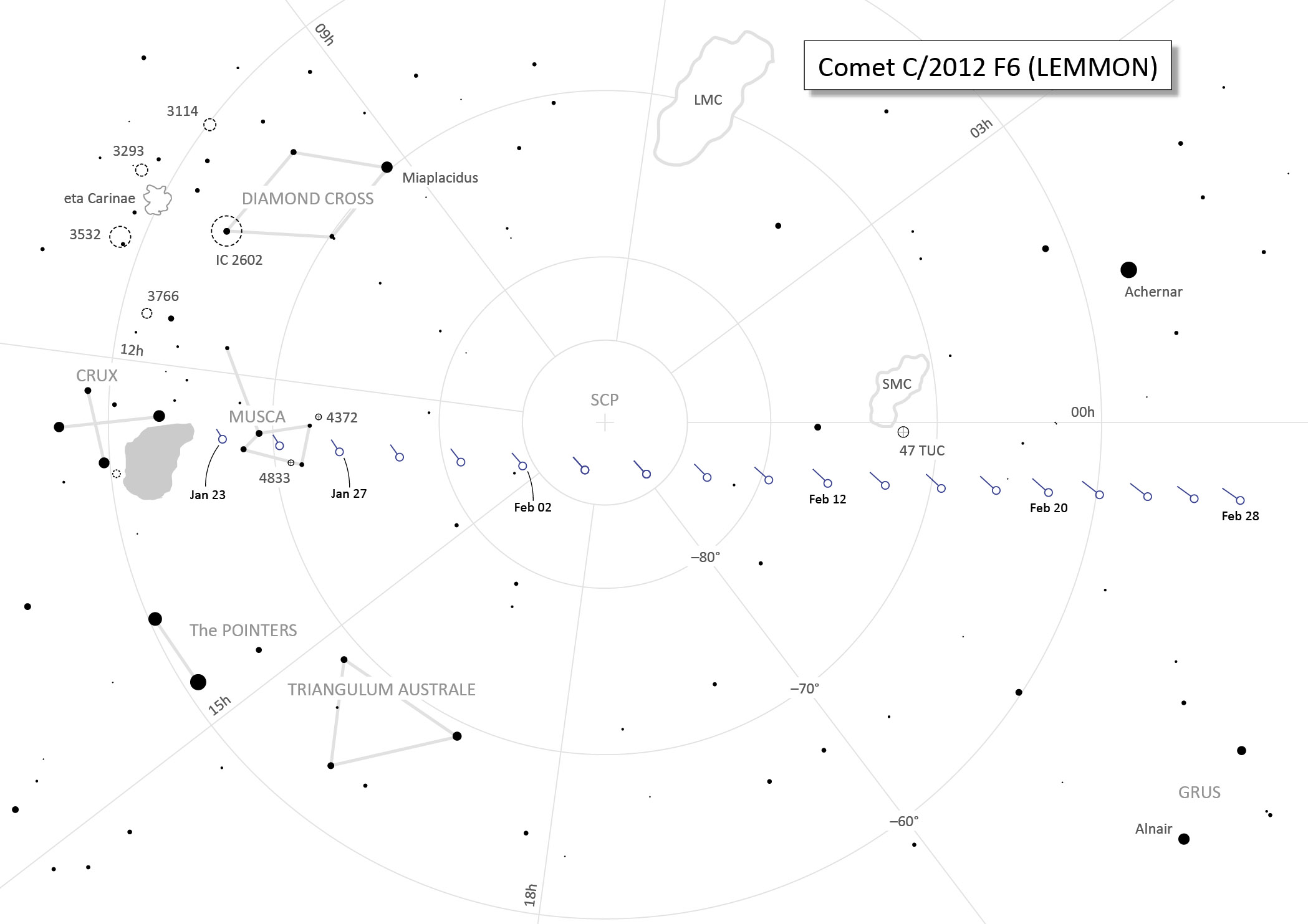 Finder chart for comet C/2012 F6 (Lemmon) for 2013 January through 2013 February.